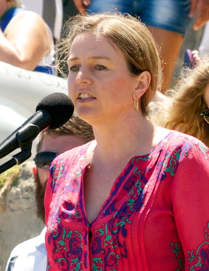 Louise Pratt, Australian Senator and MLC in Western Australia, at a rally protesting the Western Australian shark cull.